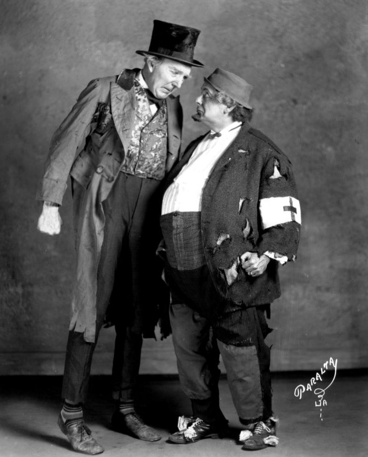 Photo of William Kolb (left) and Max Dill. The pair did a comedy act together as Kolb and Dill.